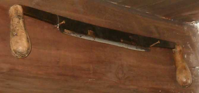 Drawknife on roof beam in Jørgen Lützhöft's old wheelwrighter's shop in the Open Air Museum, Danish National Museum, Lyngby, Denmark